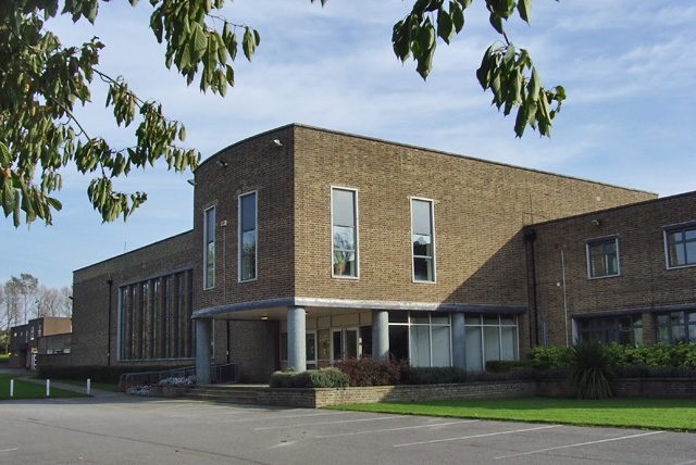 Market Weighton School, Market Weighton, East Riding of Yorkshire, England.Secondary school fronting on to Spring. Road